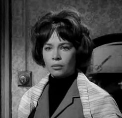 Cropped screenshot of Leslie Caron from the trailer for the film The L-Shaped Room (1962).